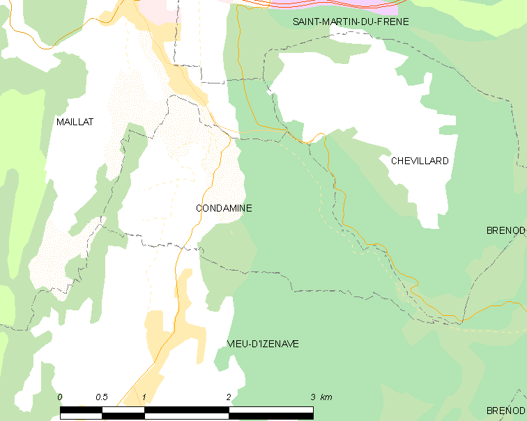 Map of French commune: Condamine Map commune FR insee code 01112.png